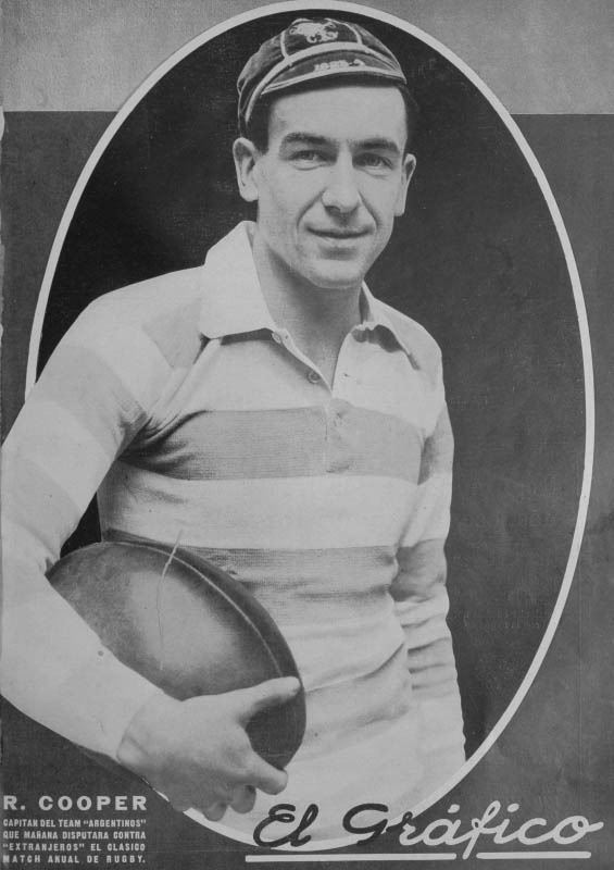 Reginald Cooper ("R. Cooper" according to the magazine), captain of the Argentine national rugby union team.